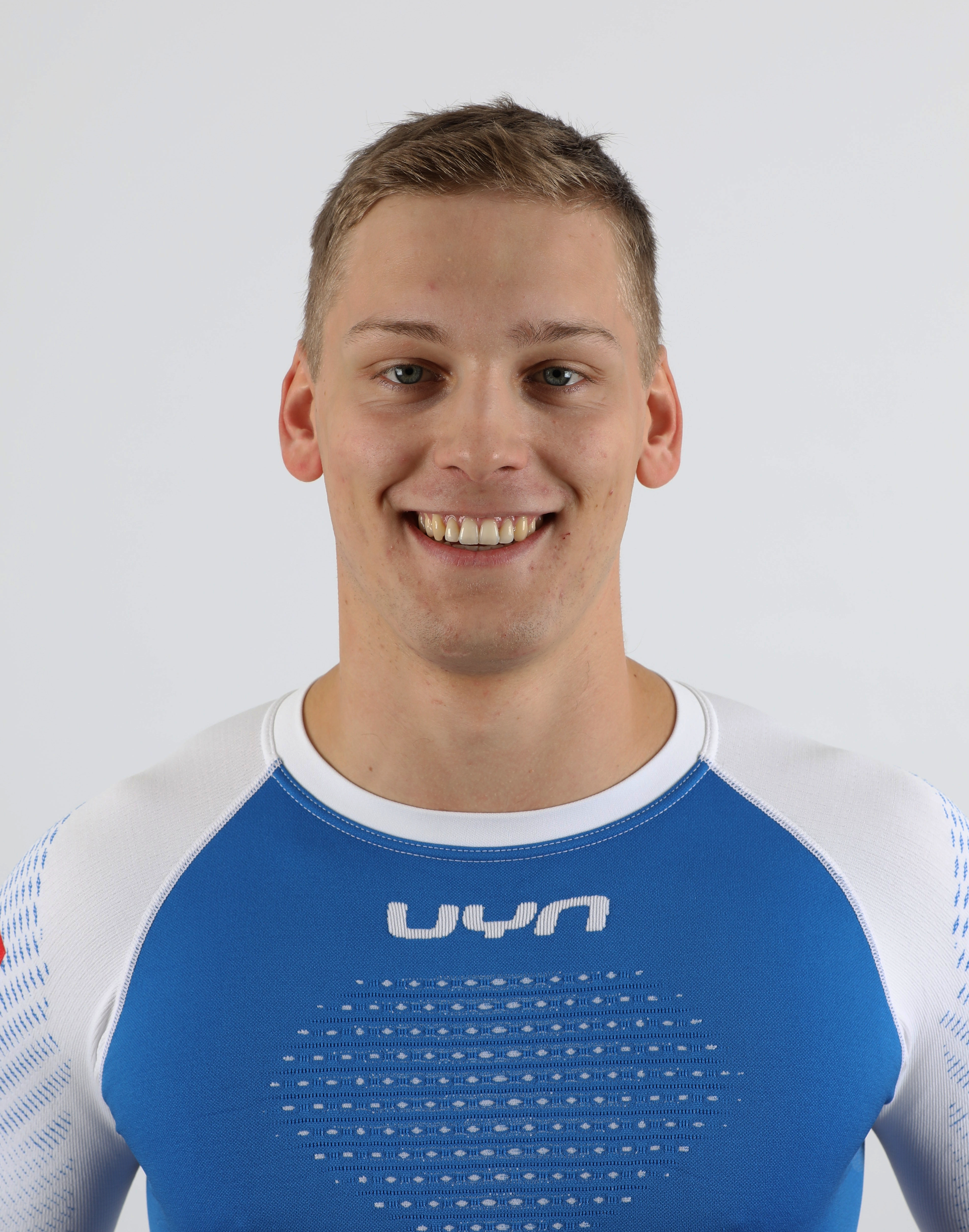 Athletes' photo project at the 2018/19 Innsbruck-Igls Luge World Cup: Ivan Nagler (Italy)